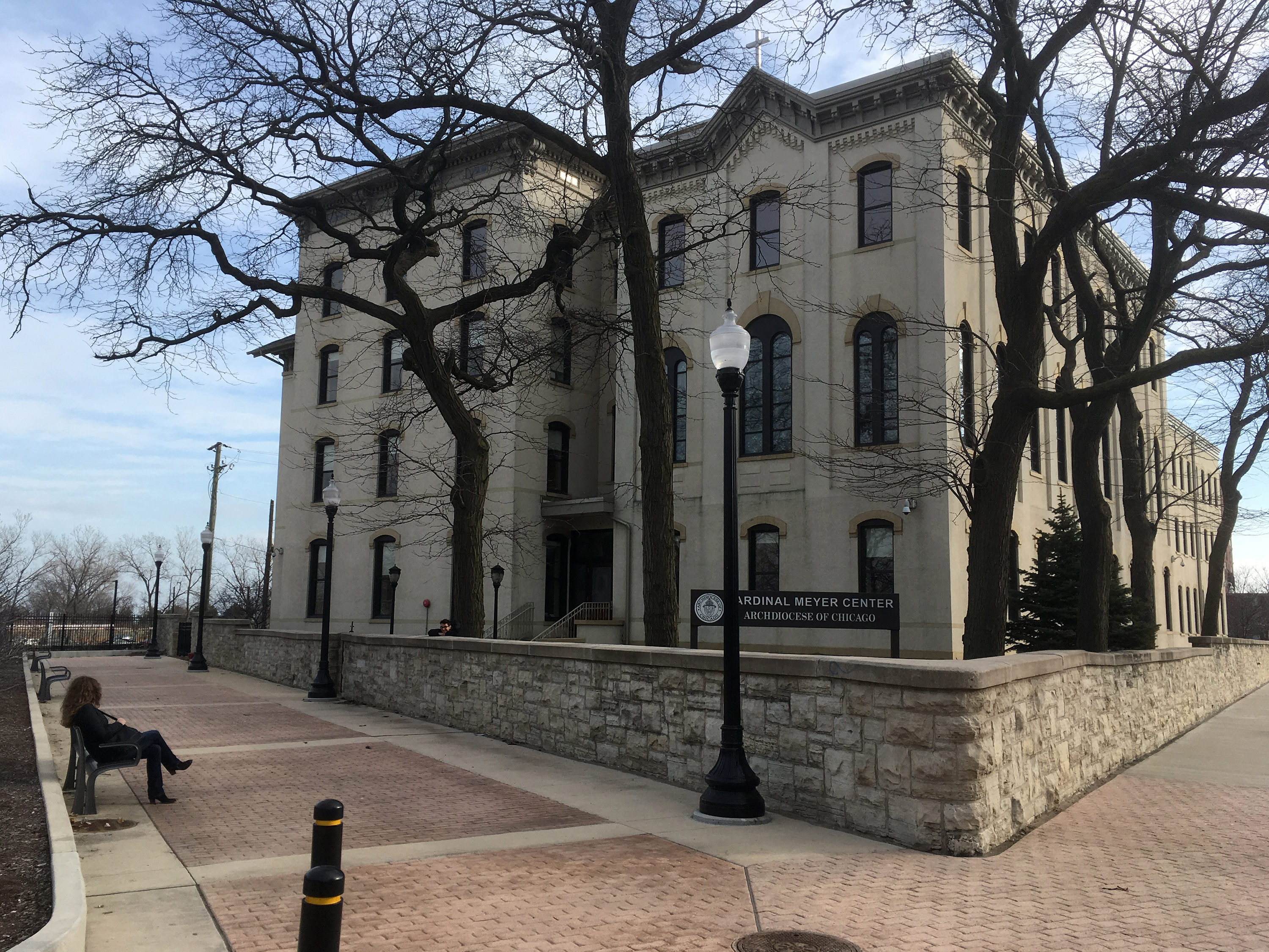 Soldier's Home, 739 E. 35th Street, Chicago, IL, December 2017